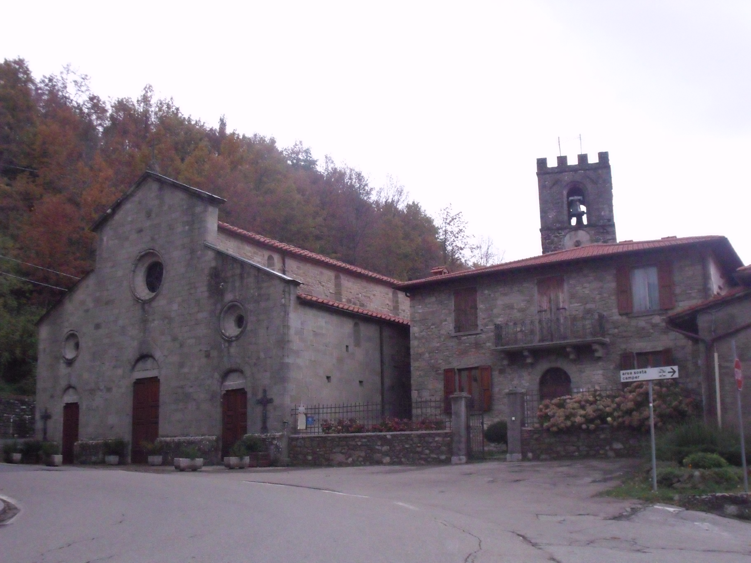 Pieve di Santa Maria Assunta in Montemignaio, Province of Arezzo, Tuscany, Italy